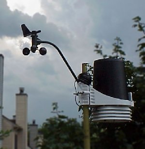 The VantagePro from Davis Instruments Corp. of Hayward, California, U.S.A., is a popular and sophisticated personal weather station.